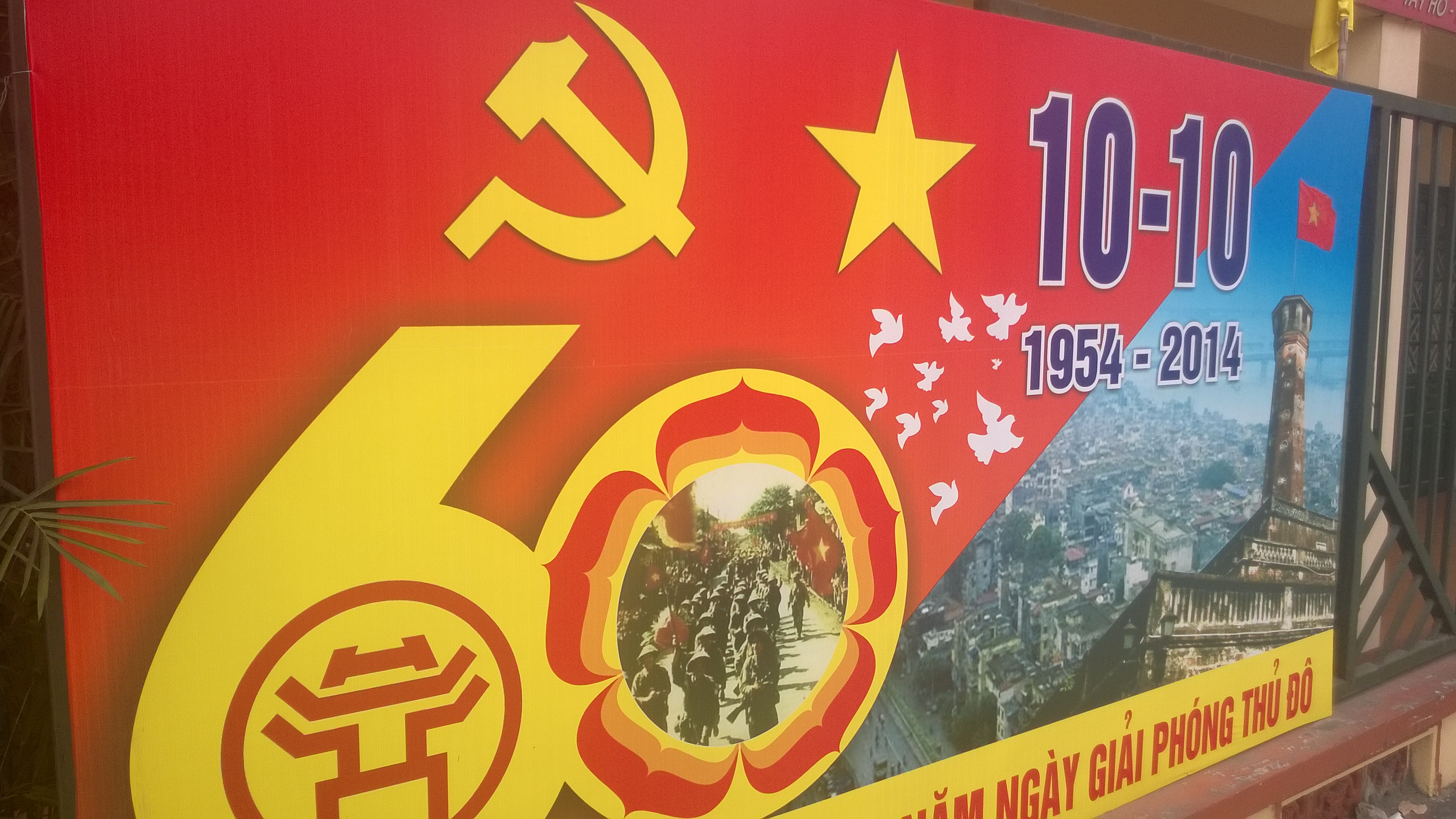 A Poster celebrating the 60th anniversary of the French recognition of North-Vietnamese independence.